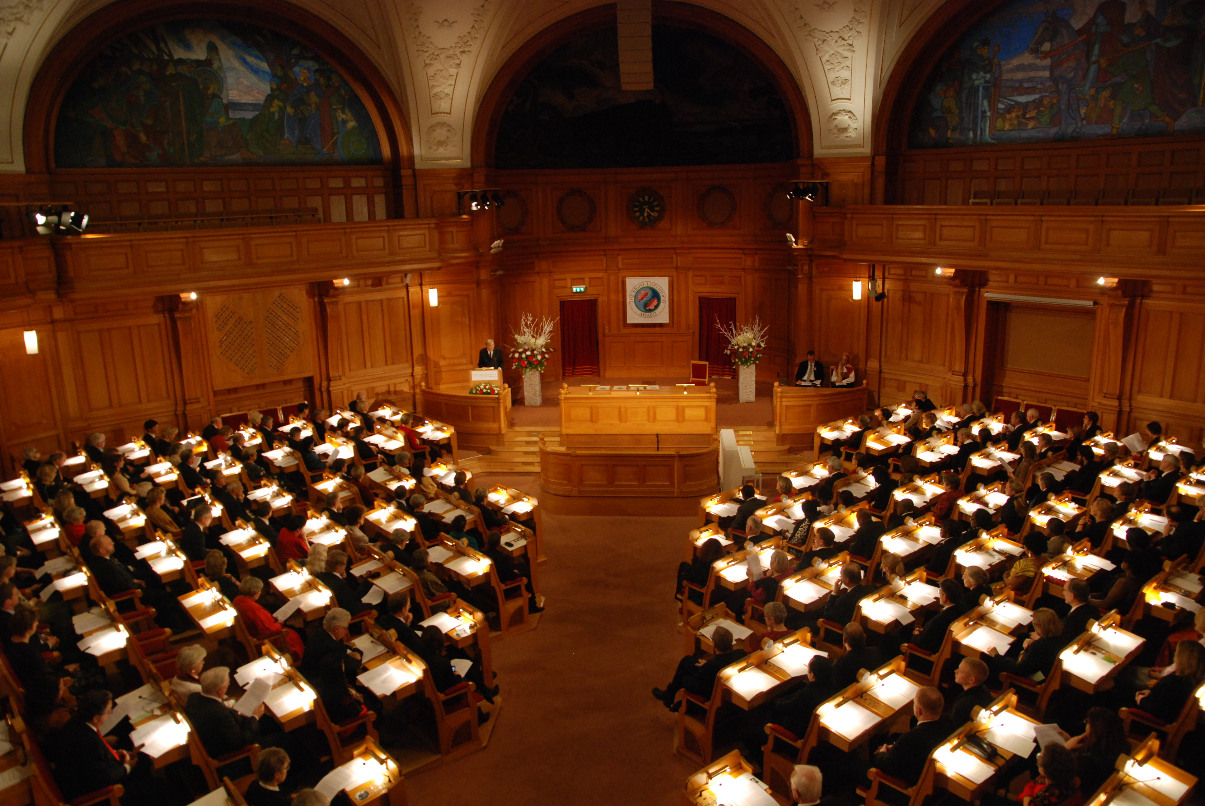 Award Ceremnony of the 30th Right Livelihood Award 2009 in the former second chamber of the Riksdag building in Stockholm.